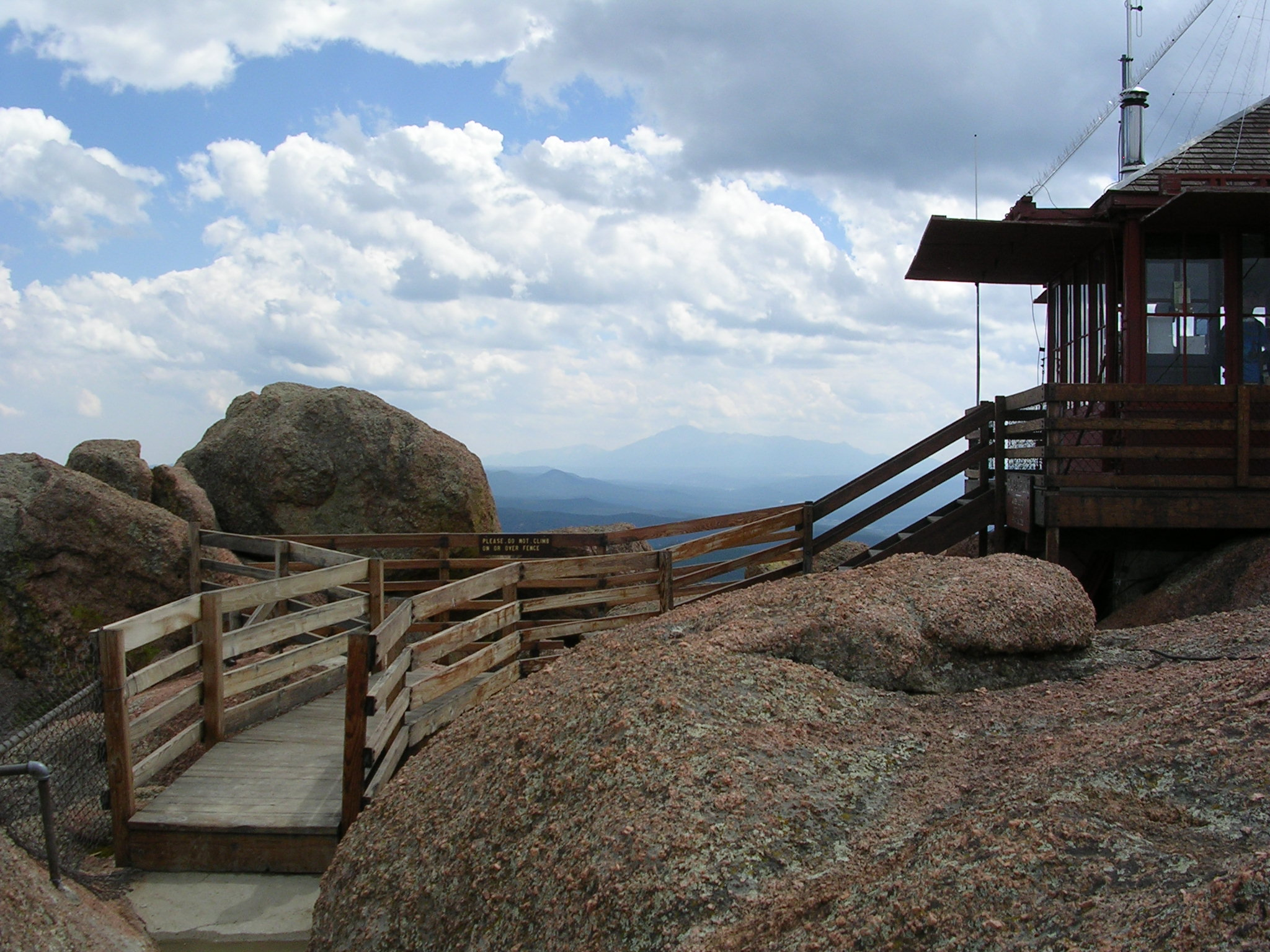 Picture of lookout tower at Devil's Head, Colorado. The tower is located in Douglas County. Pike's Peak is visible in the background.